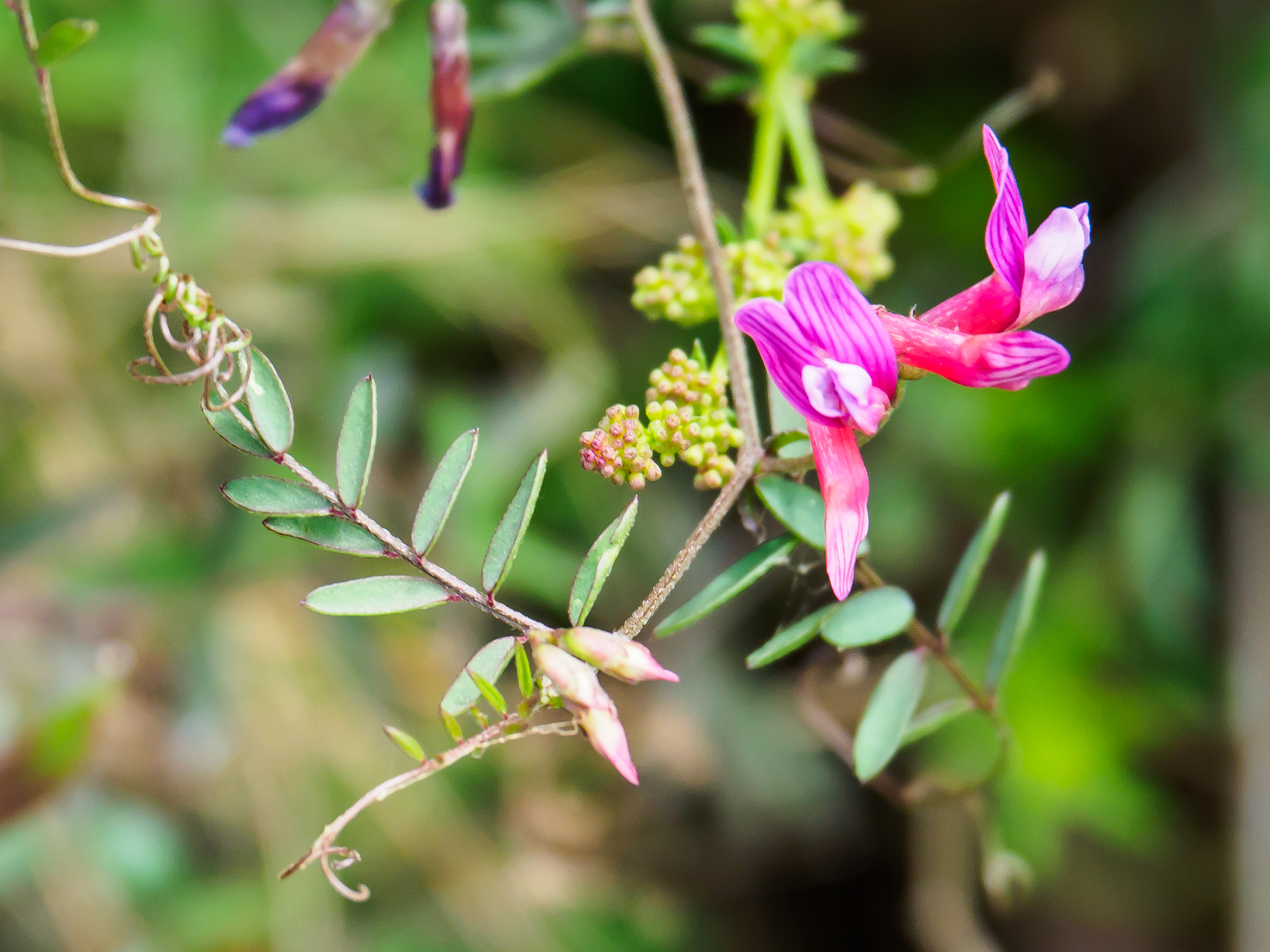 Vicia cretica